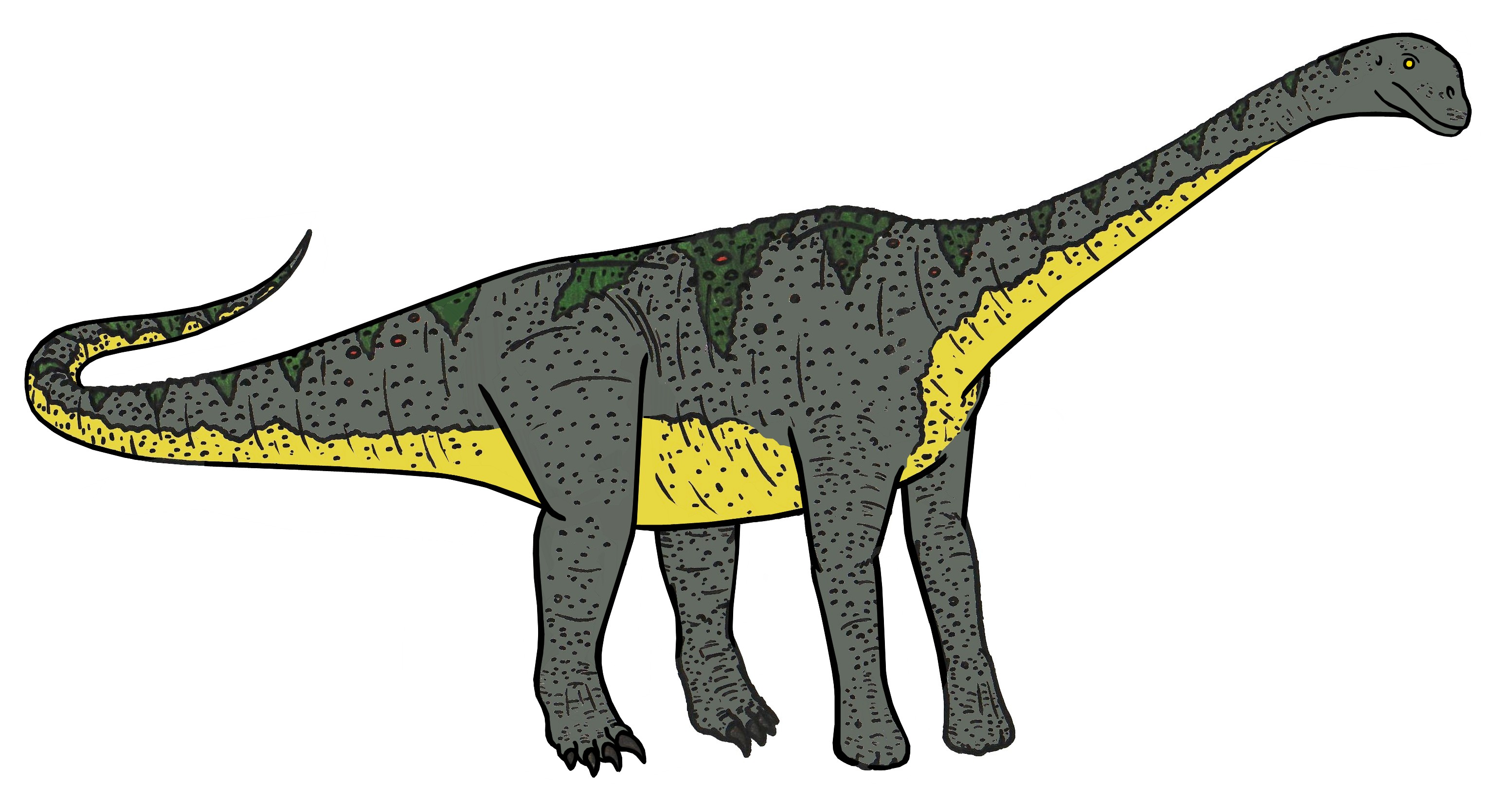 Paralititan was a huge planteating dinosaur from Africa. It was a sauropod, related to Argentinosaurus and puertasaurus.